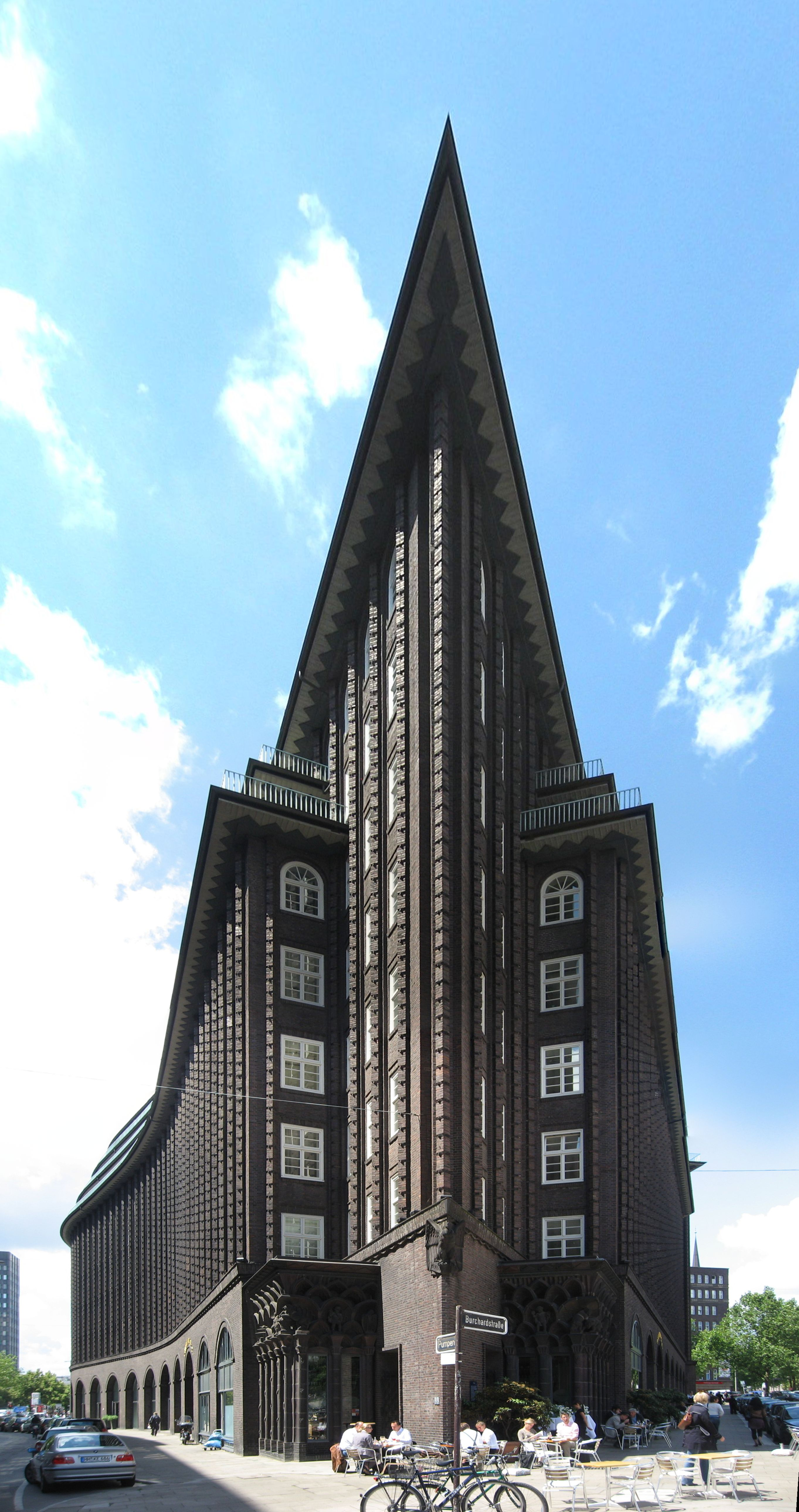 Chilehaus at Hamburg, point on the street corner Pumpen / Burchardstrasse, buildt 1922–1924 by Fritz Höger